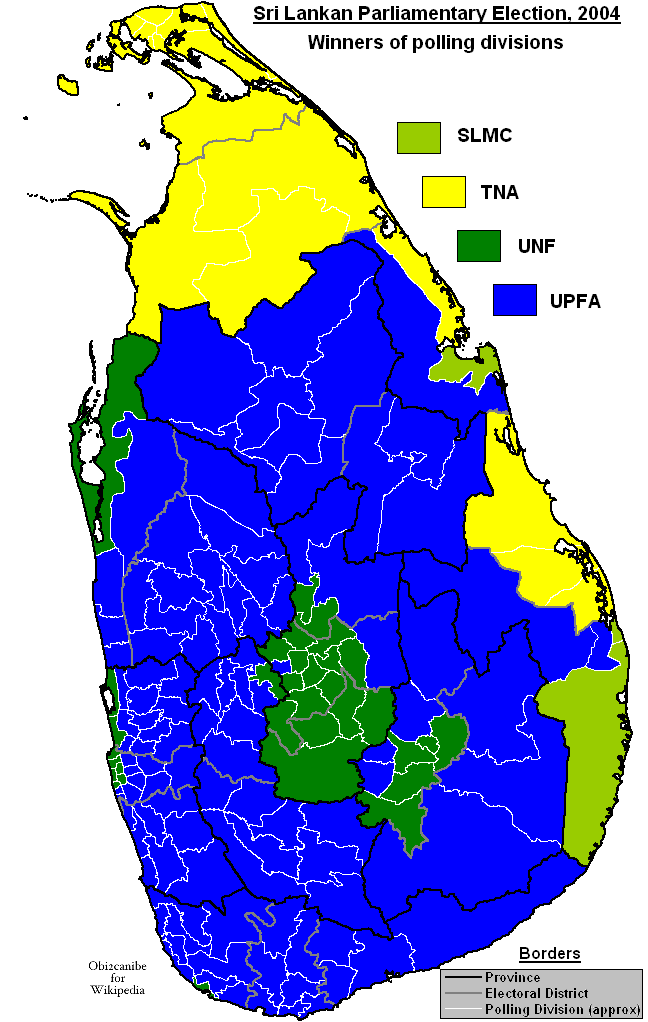 Map showing winners of polling divisions in the Sri Lankan parliamentary election of 2004.